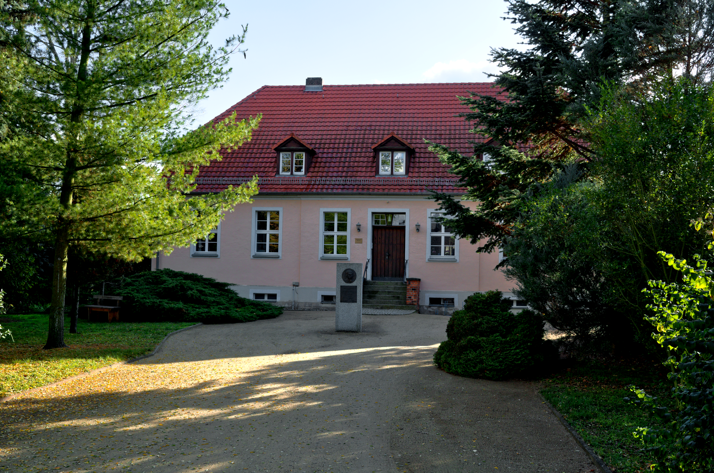 Rectory of the village church in Cottbus-Kahren.